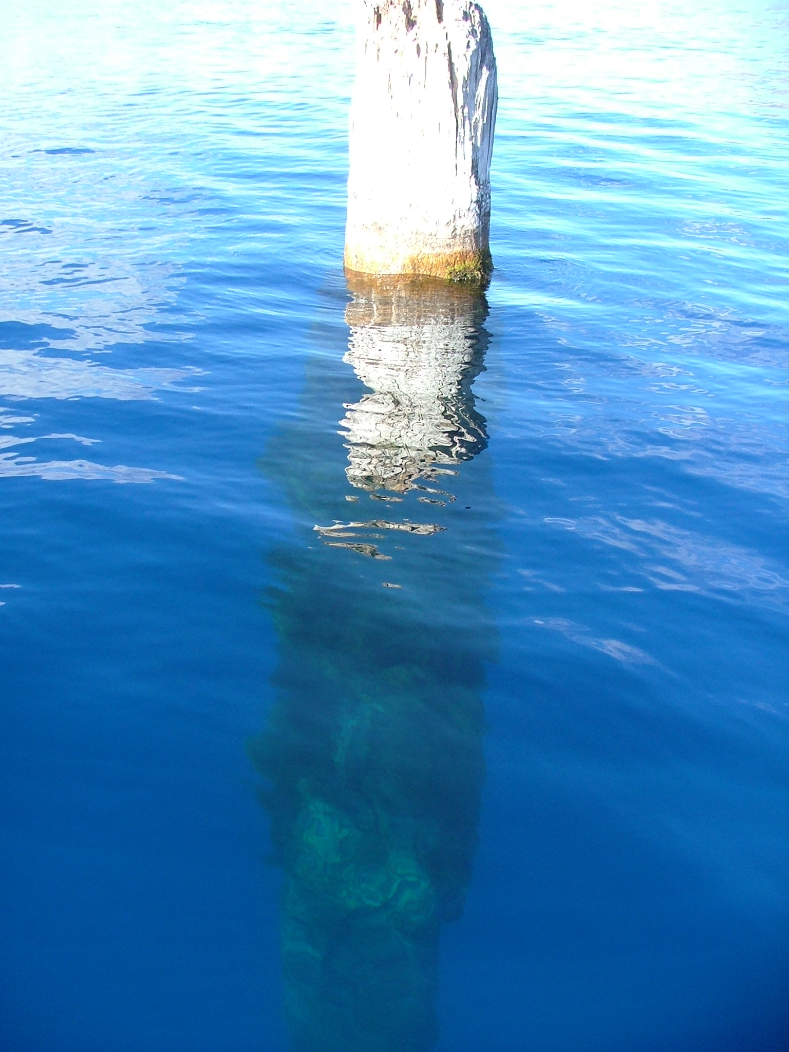 This is the long-lived piece of driftwood called the Old Man of Crater Lake. Photo taken on a National Park Service boat tour of the lake.